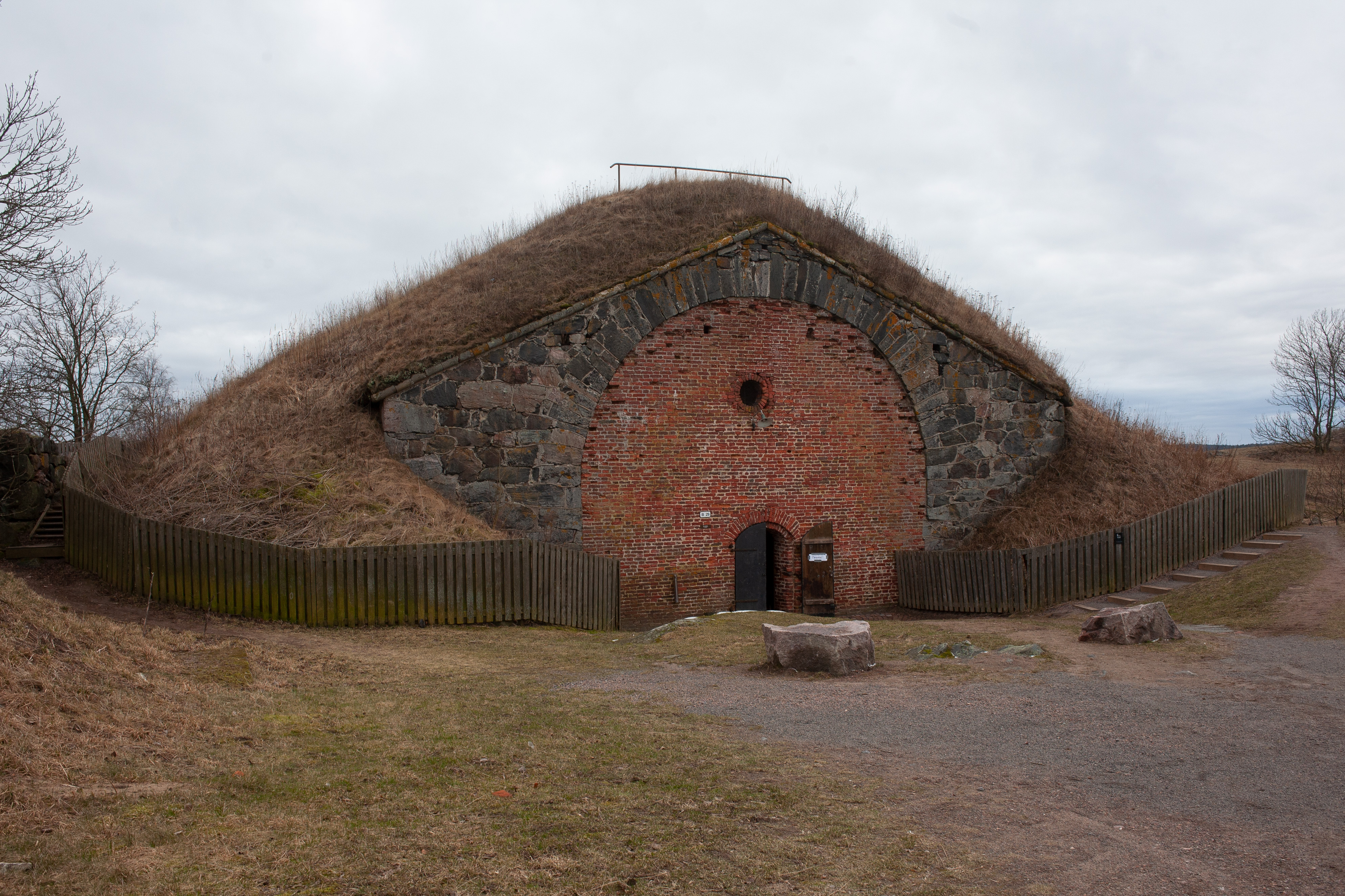 Suomenlinna B 29